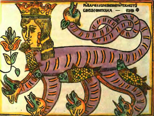 "Meduza". An 18th-century Russian lubok print. It features a Slavic mythical creature, Meduza. The lubok says: "A fish, named Meduza lives in the ocean-sea near the Ethiopian abyss".